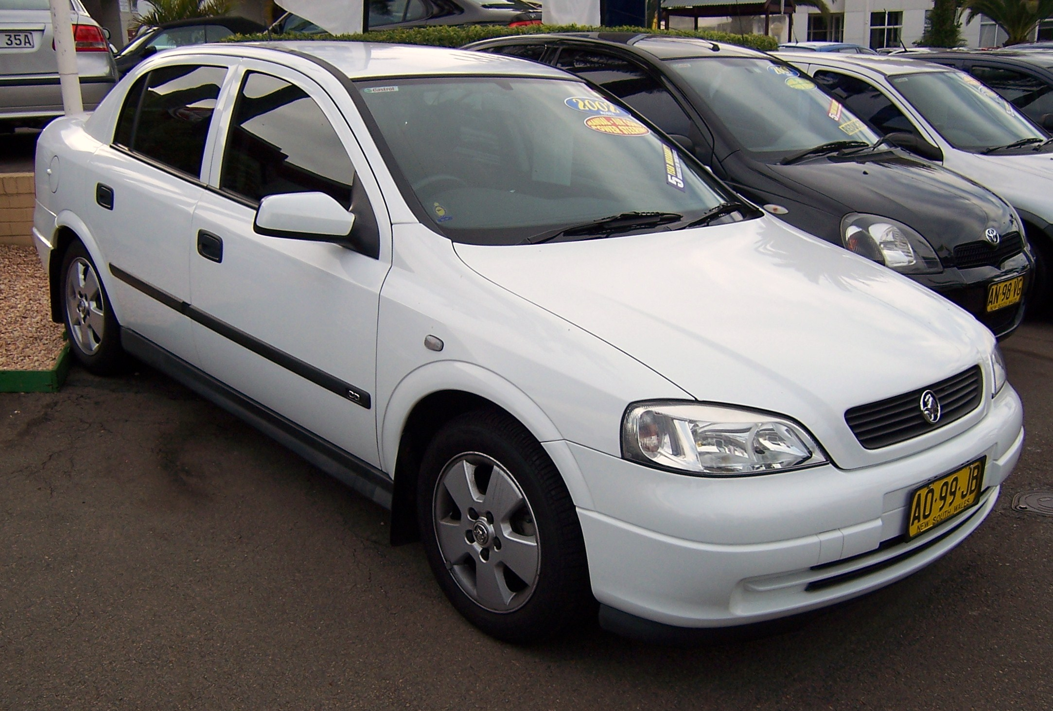 2002 Holden Astra (TS) CD 5-door hatchback. Photographed at McGrath Sutherland Holden, Kirrawee, New South Wales, Australia.